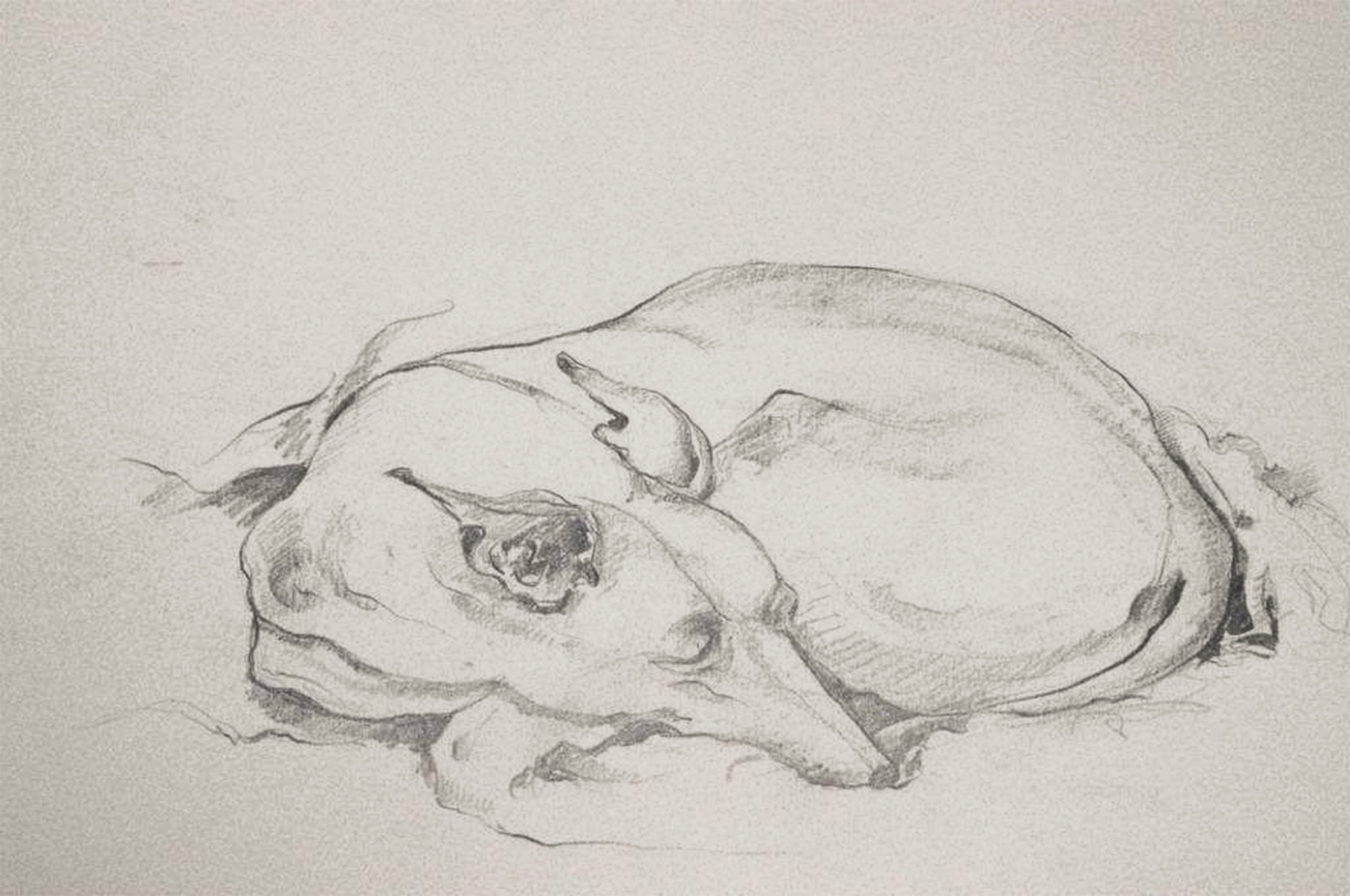 Pencil drawing of his whippet Sprint by Ian Sprague; photographed in a private collection at Enfield Victoria